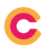 Climate Council logos.